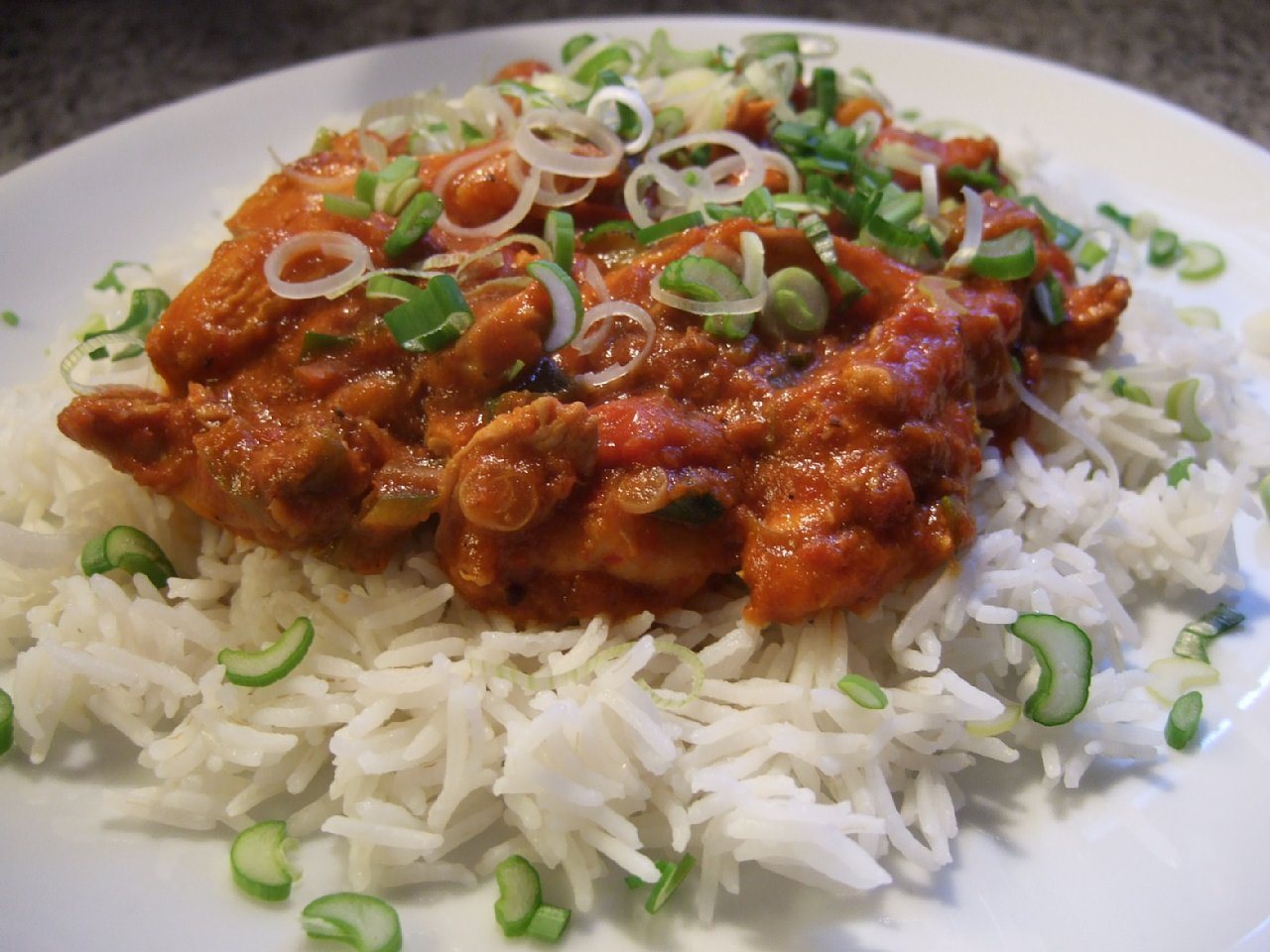 Chicken with chilli